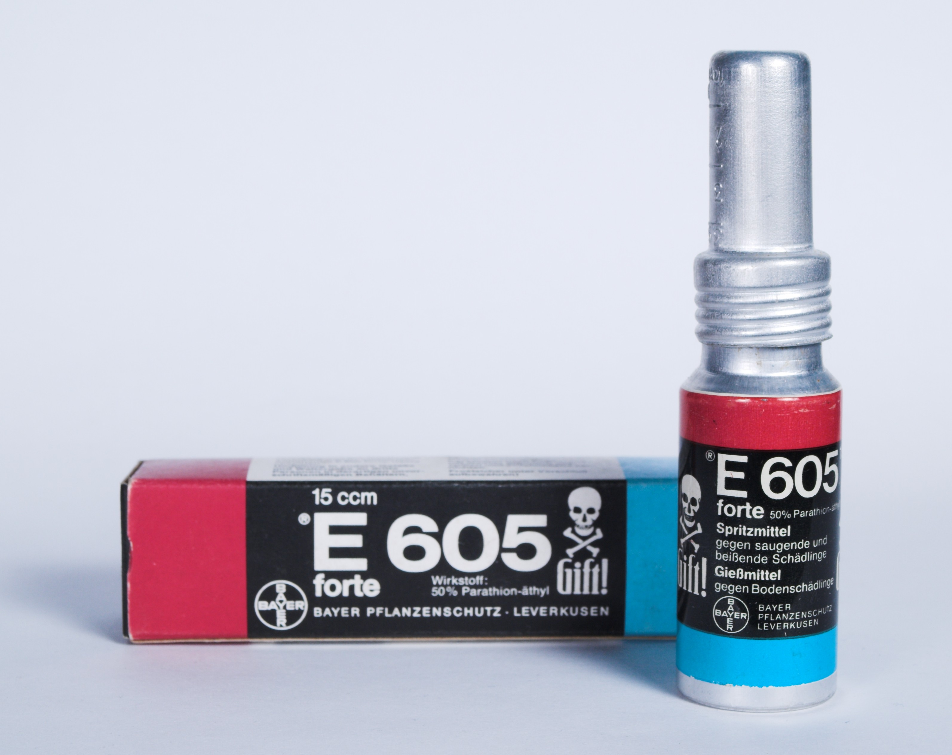 E605 forte - used for pest control